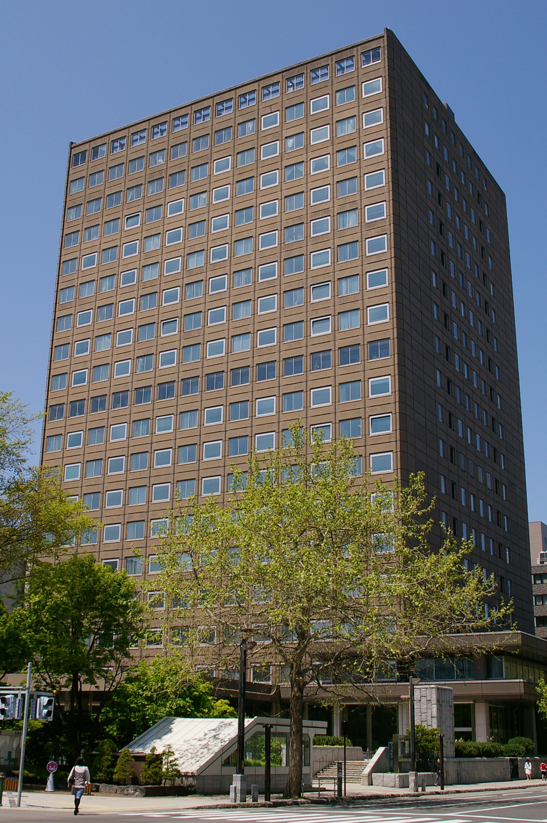 Photograph of Sapporo City Hall (main building) in Chuo-ku, Sapporo, Hokkaido, Japan.